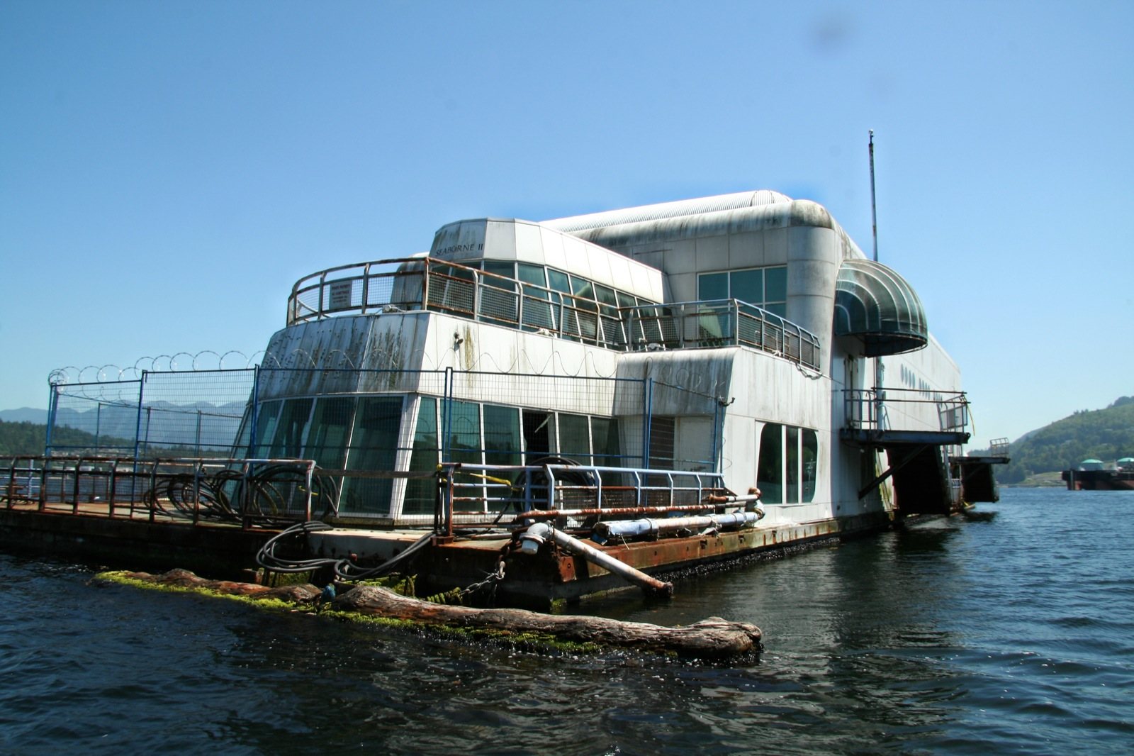 Friendship 500, a floating McDonald's restaurant, also known as the McBarge, anchored in Burrard Inlet near Vancouver, BC.